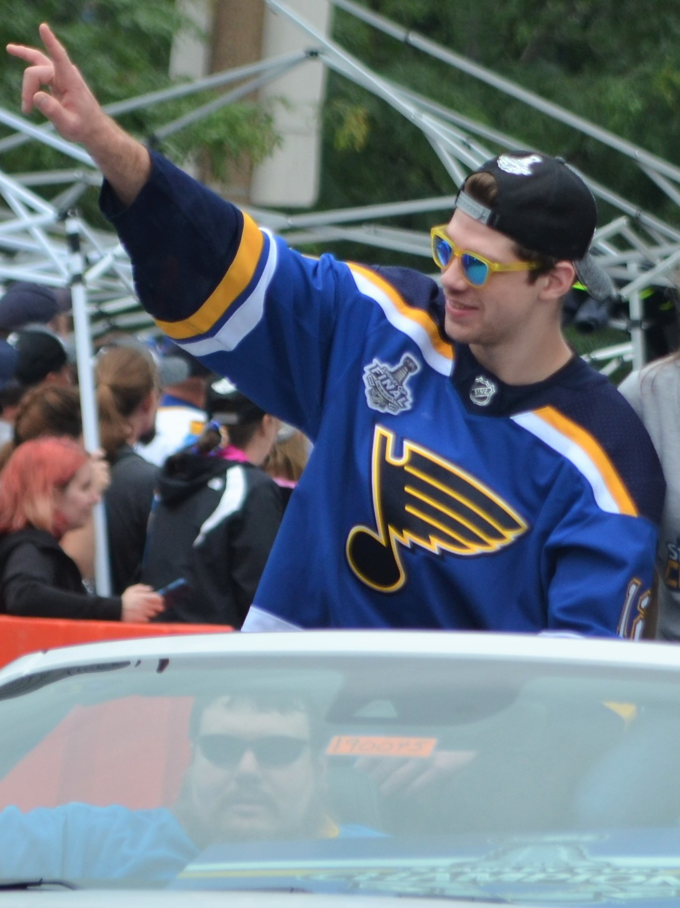 Zach Sanford during the 2019 Stanley Cup parade